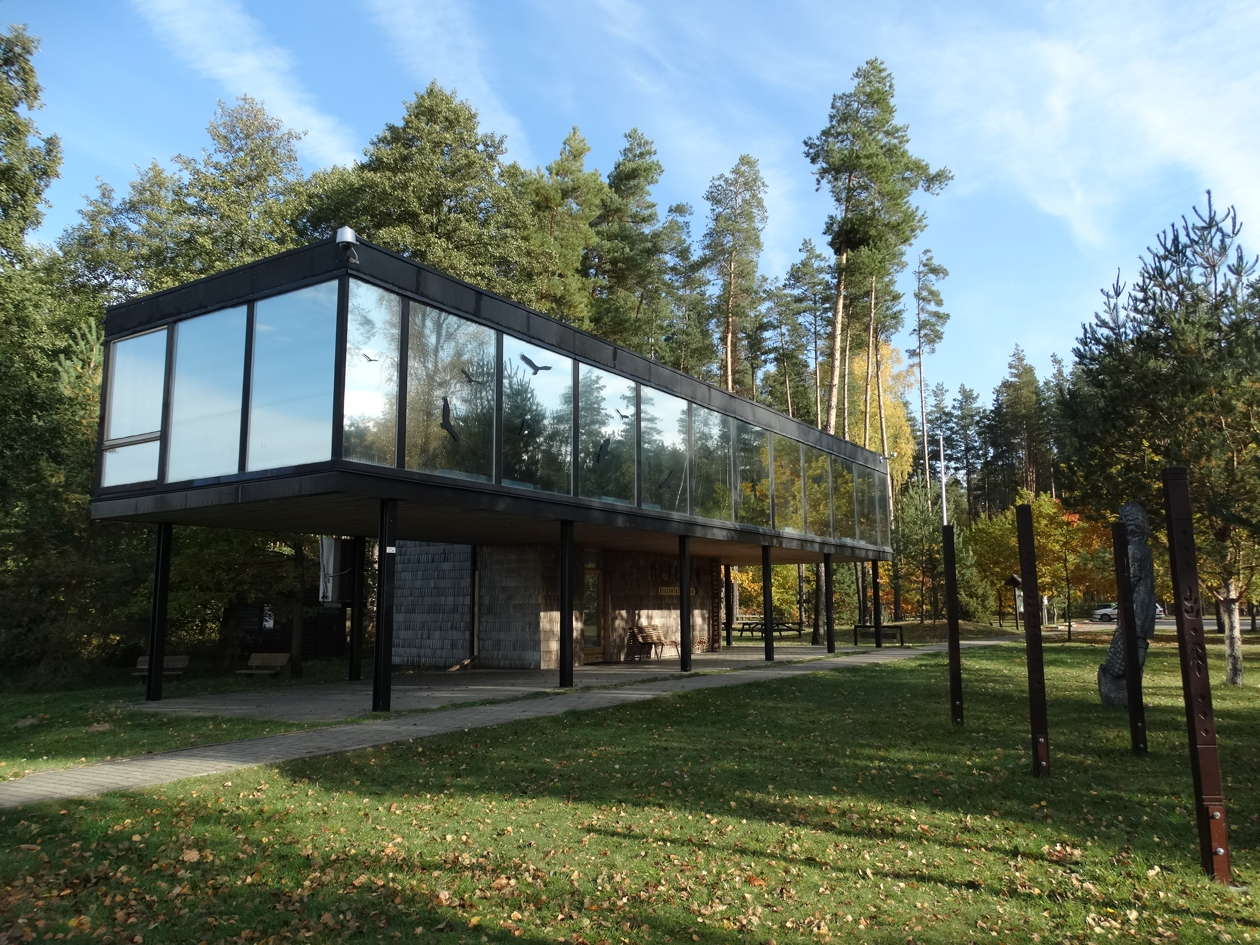 Regional park centre, Meteliai, Lazdijai district, Lithuania